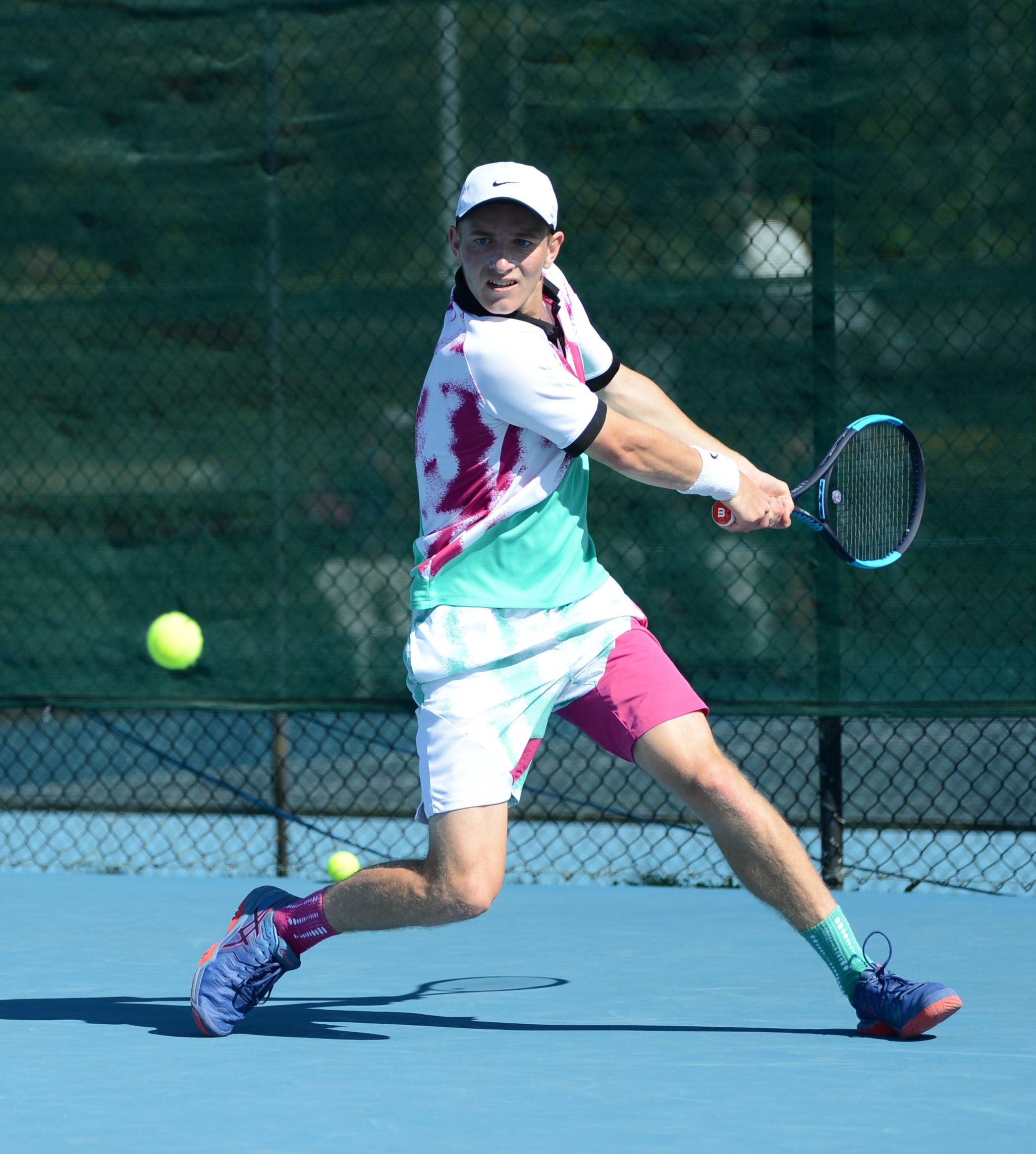 George Stoupe (17) competing in the 18U Nationals Tennis Tournament held in Auckland, New Zealand in December 2018